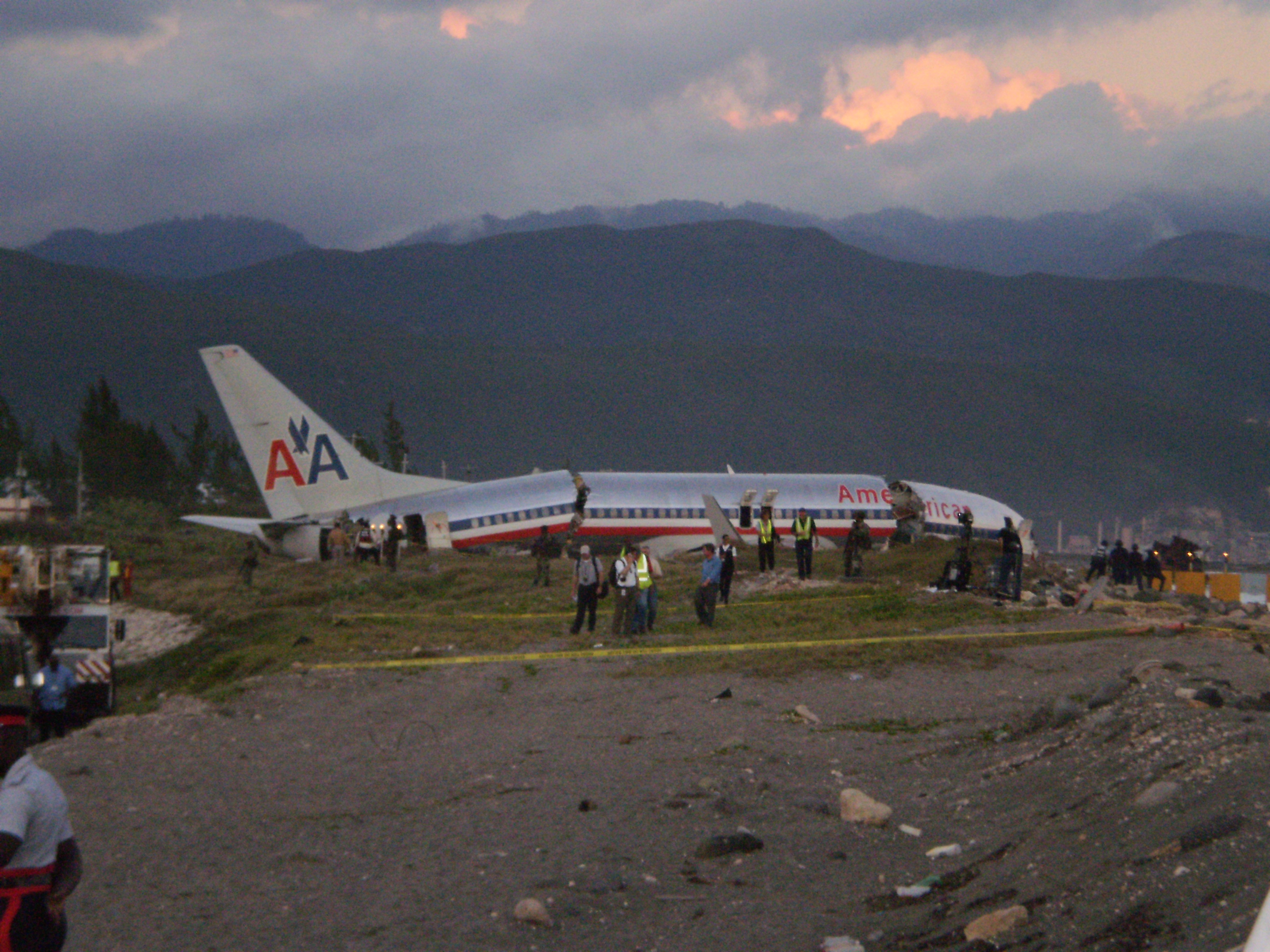 Flight 331 crashed at Norman Manley International Airport